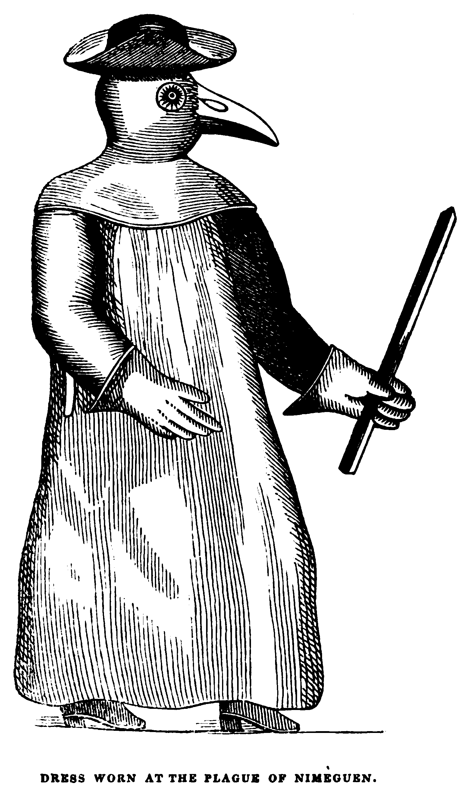 Nineteenth-century engraving of a plague doctor, based on the frontispiece of Jean-Jacques Manget, Traité de la peste: recueilli des meilleurs auteurs anciens et modernes, et enrichi de remarques et observations théoriques et pratiques : avec une table très ample des matières (Geneva: Philippe Planche, 1721). In the source it is used to illustrate an article on The Plague of Nimèguen, hence the caption.